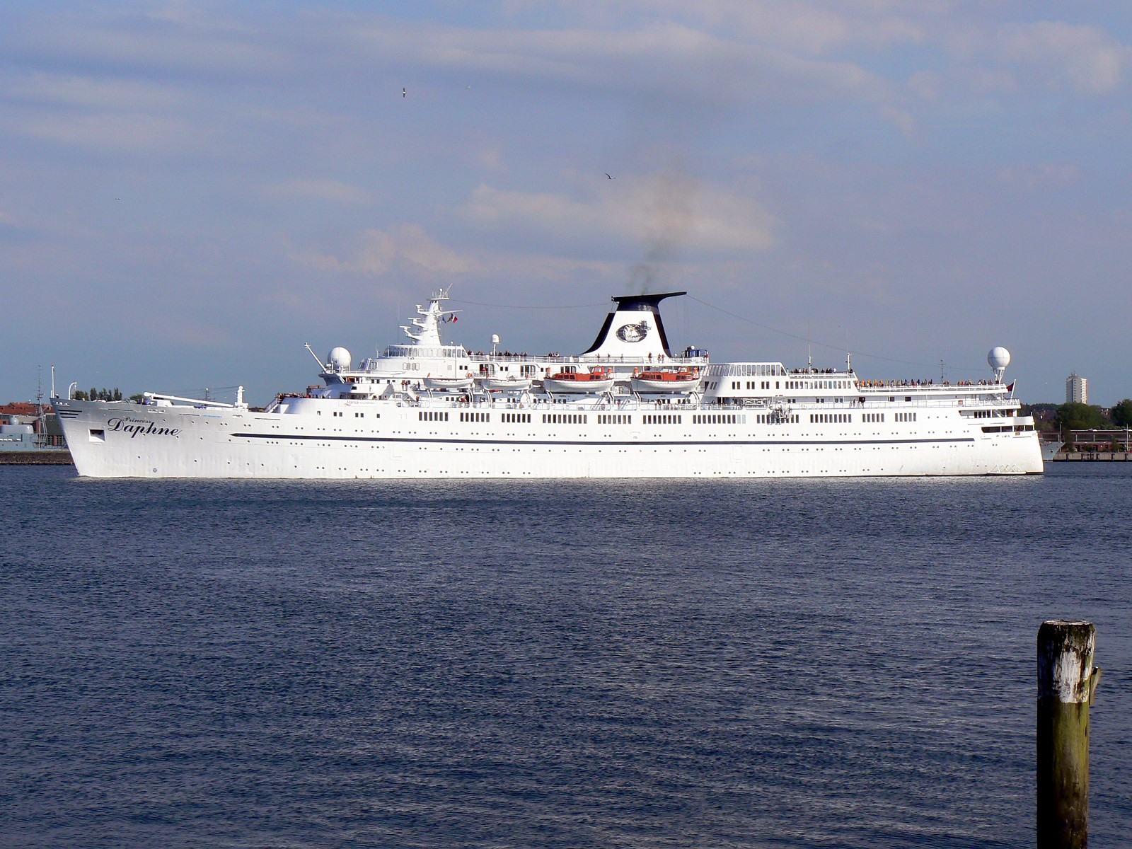 Cruise ship Princess Daphne in Port of Kiel